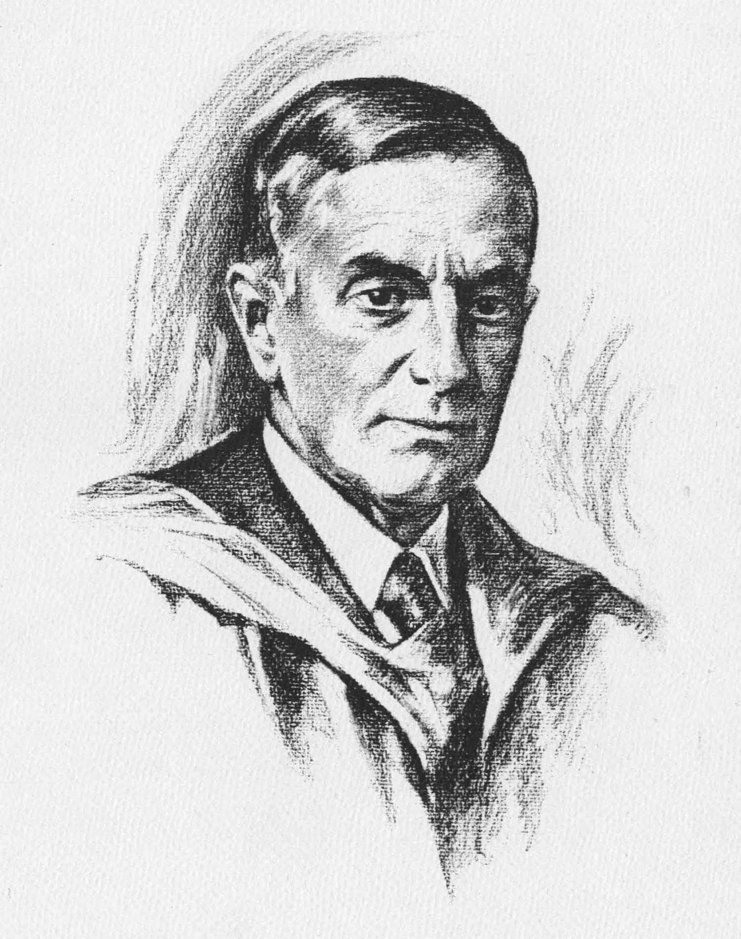 1931 sketch of California Institute of Technology Professor Arthur Amos Noyes